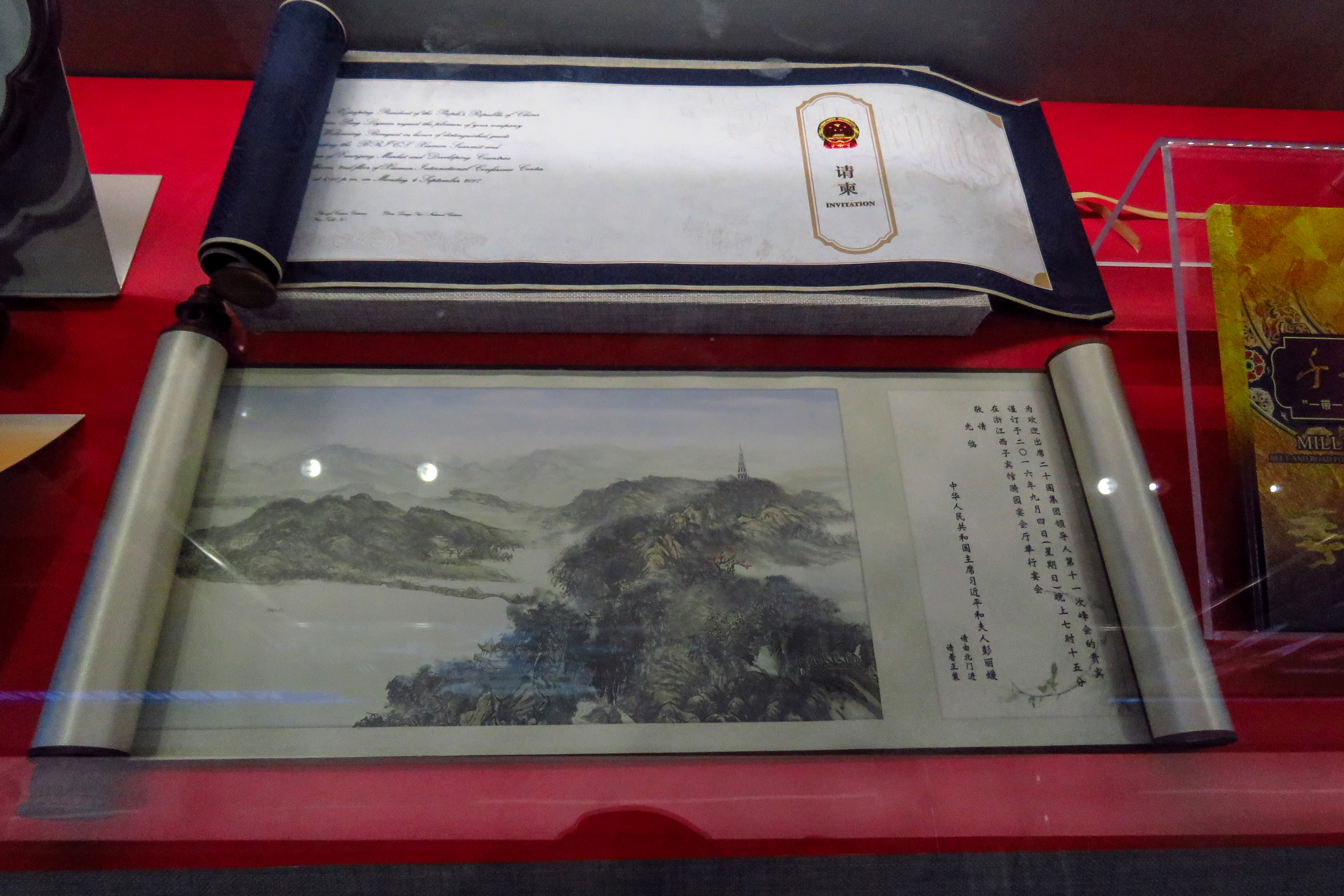 This can by no means be called an invitation "card".